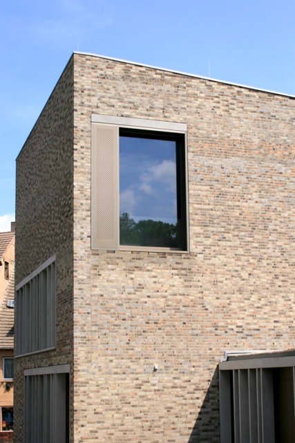 Martin Luther's Birth House: The new visitors- and informations-center